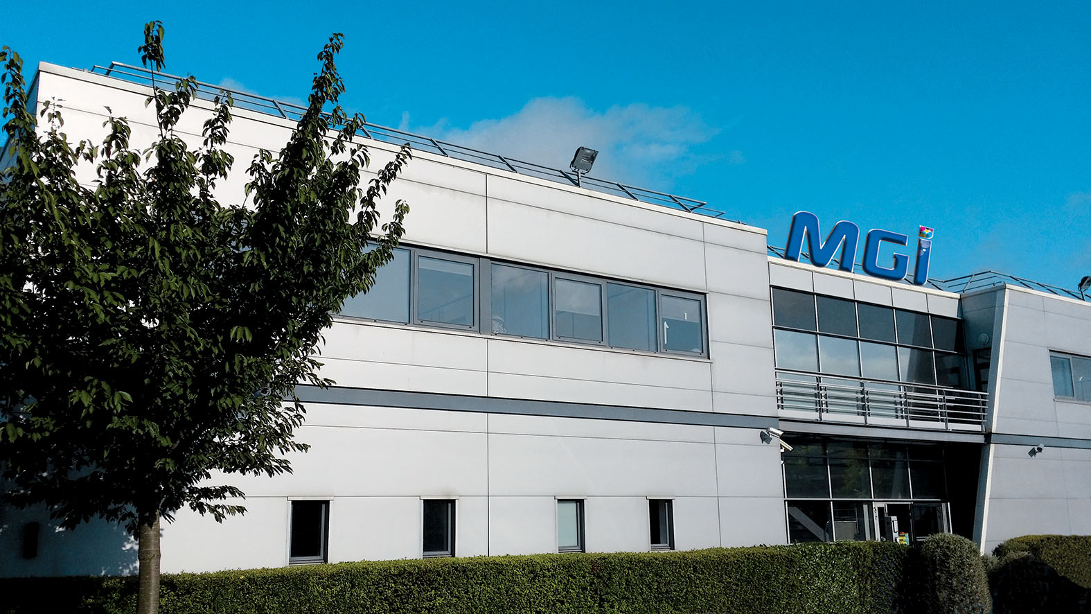 New MGI HQ building at Fresnes, near Paris (France)